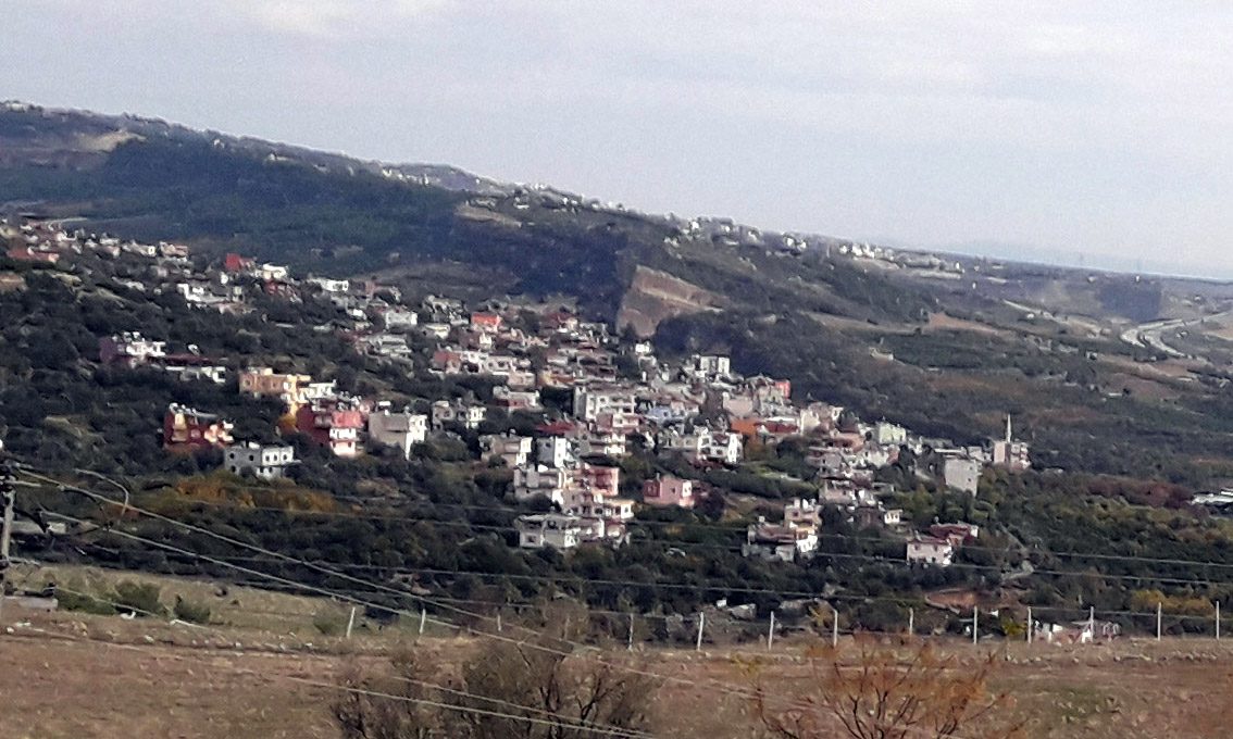 Çavak village in Mersin, Turkey